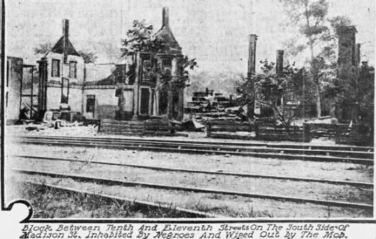 The Badlands after Attack. Chicago Tribune.